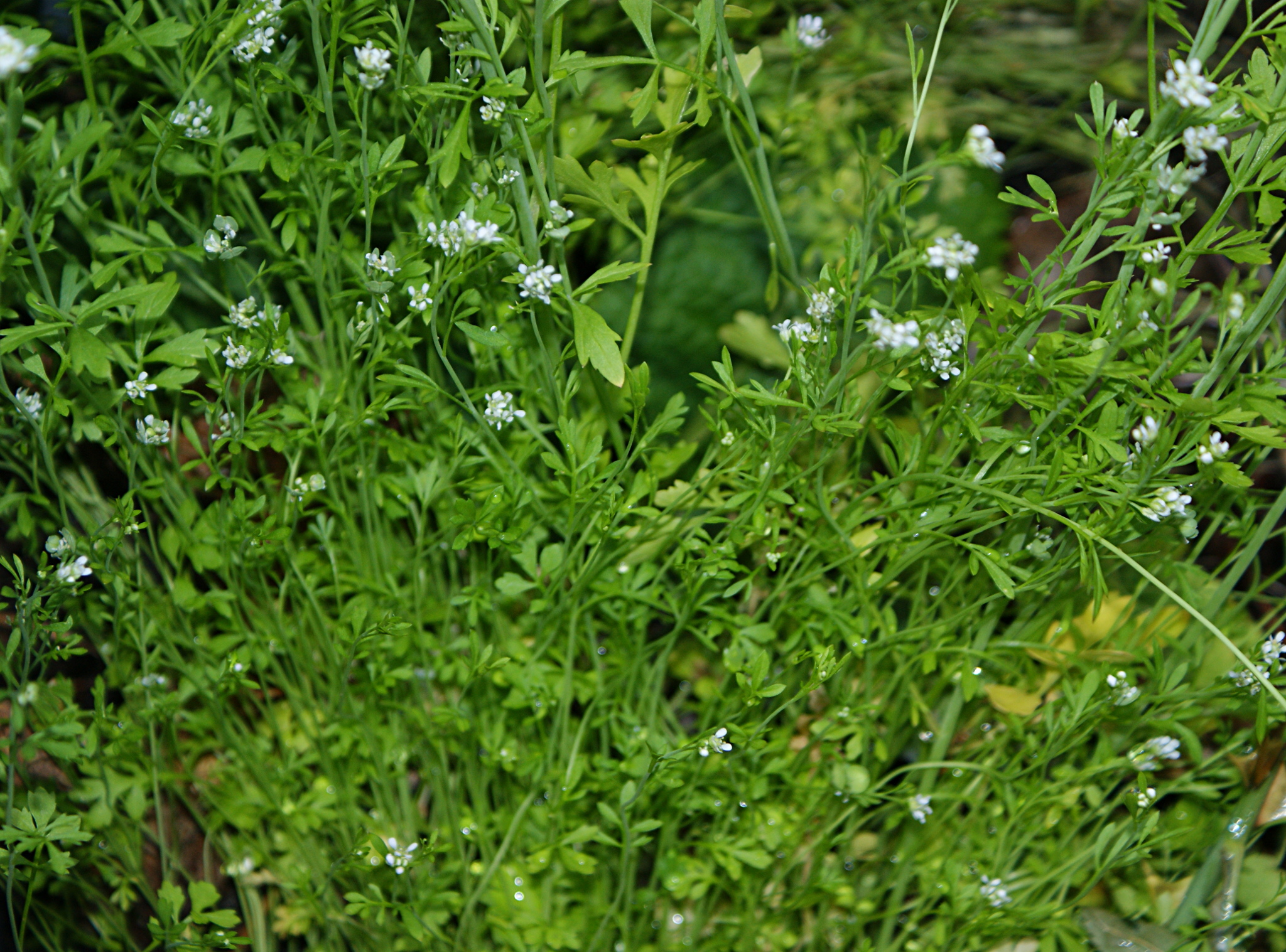 Garden cress in flower